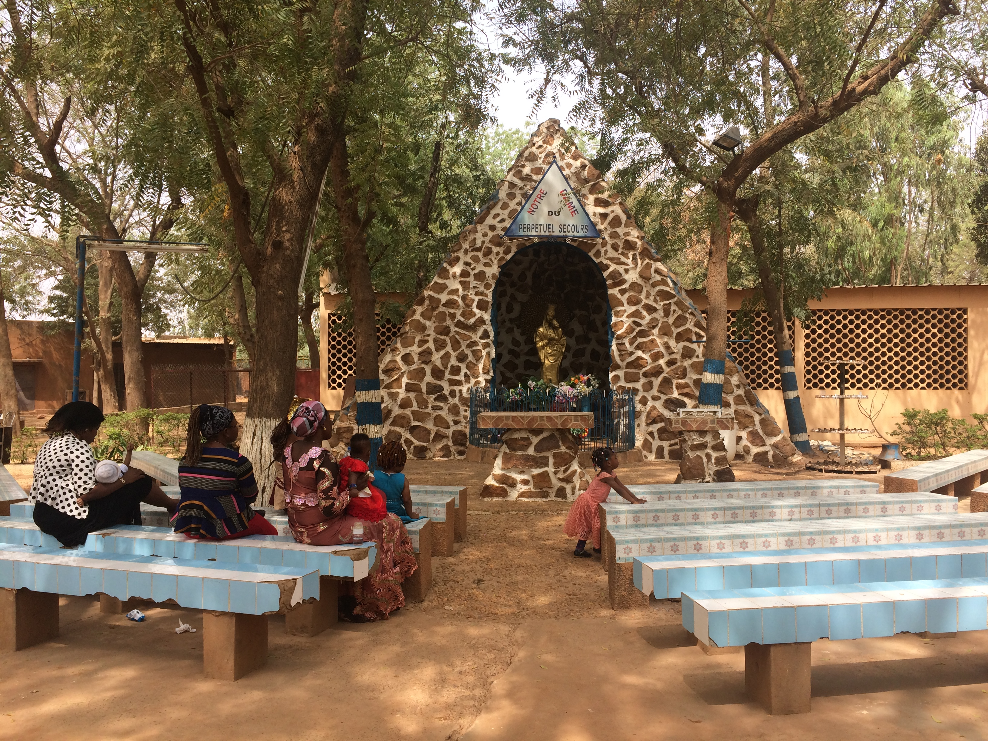 Chapel "Our Lady of Perpetual Help" in Niamey, Niger.